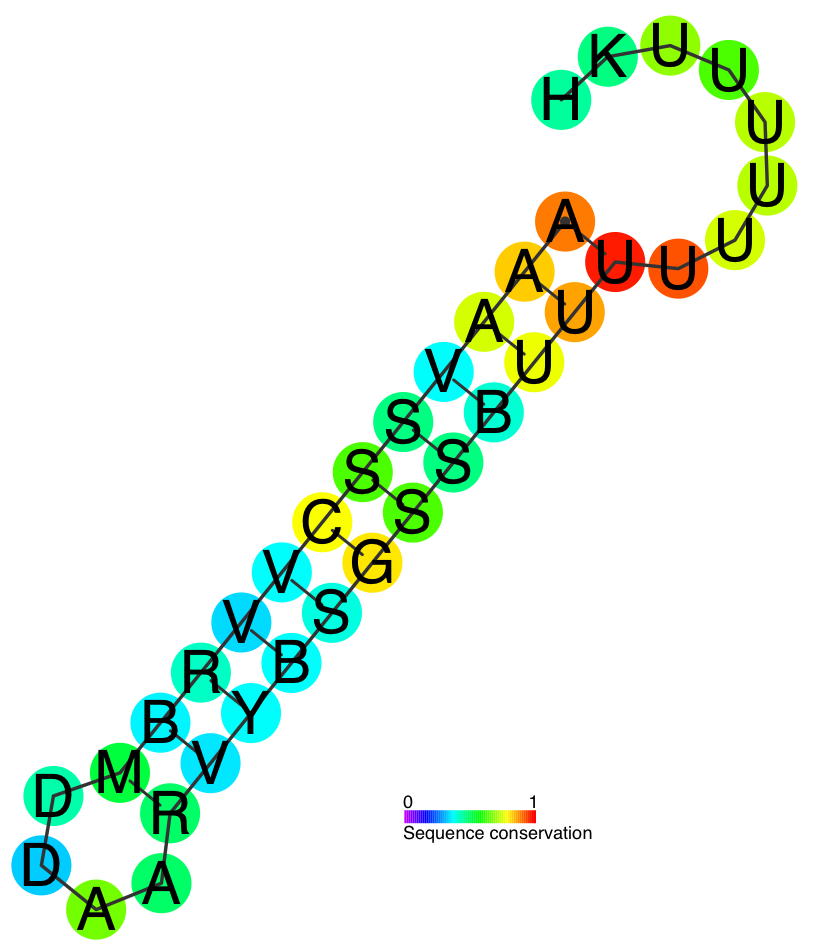 A predicted conserved secondary structure and sequence conservation annotation for 90 bacterial Rho-independent termination elements.